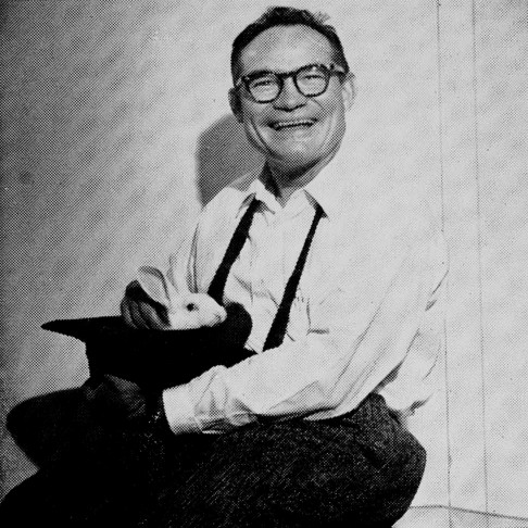 American football coach Jack Curtice preforming a hat-trick.